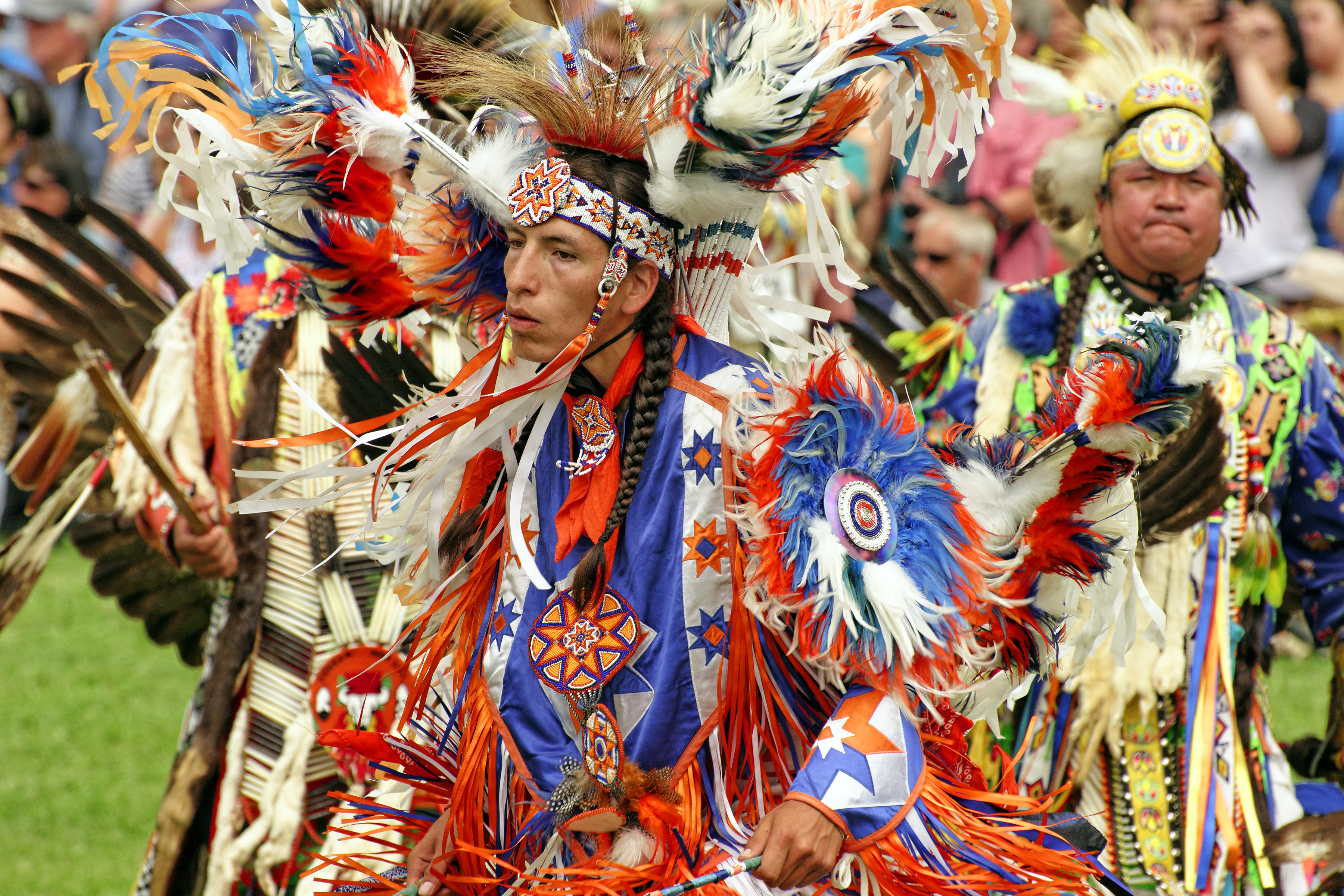 Six nations of the Grand, Pow Wow Dancers, July each year